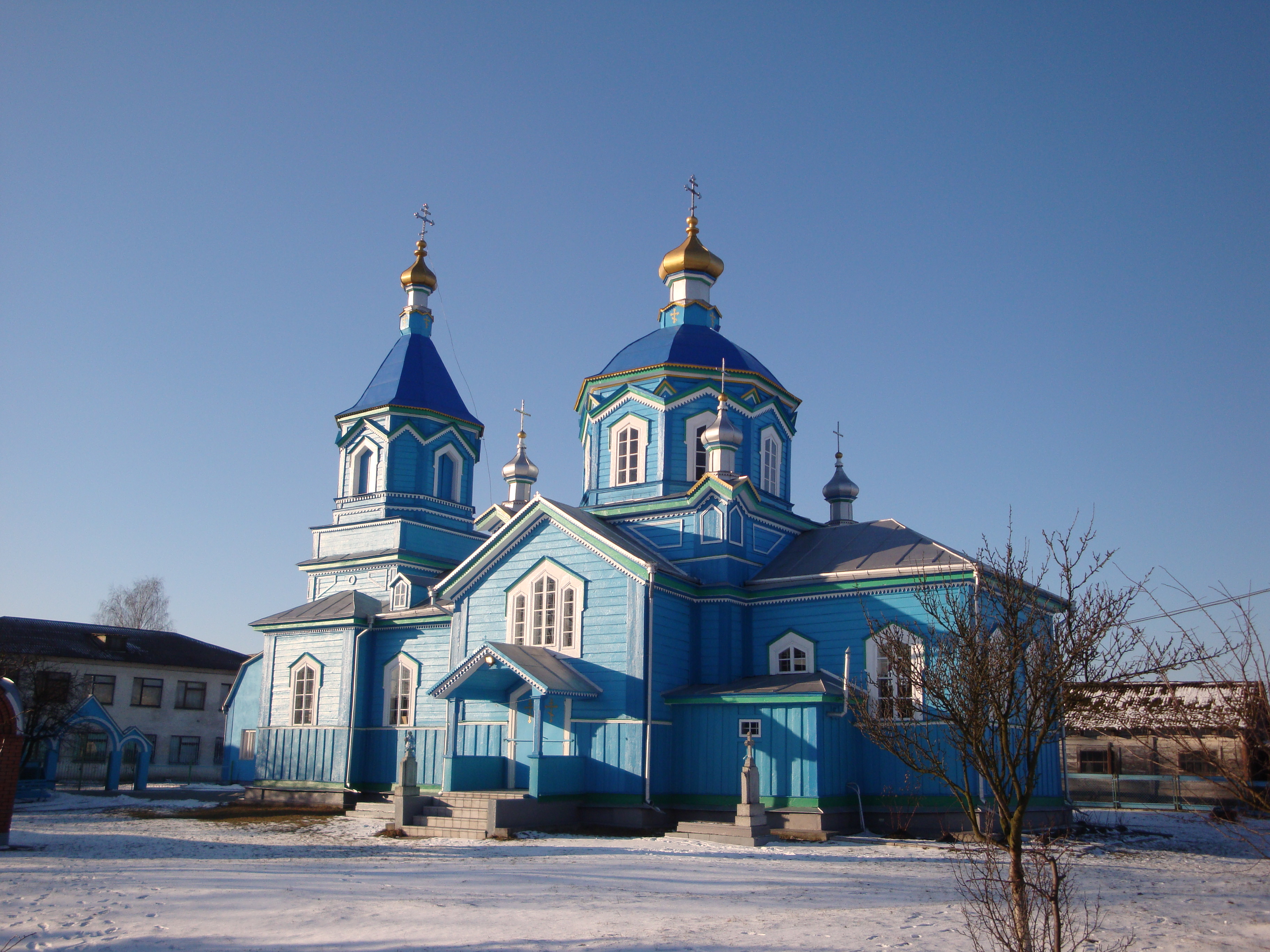 Church of Nativity of the Theotokos in Luboml